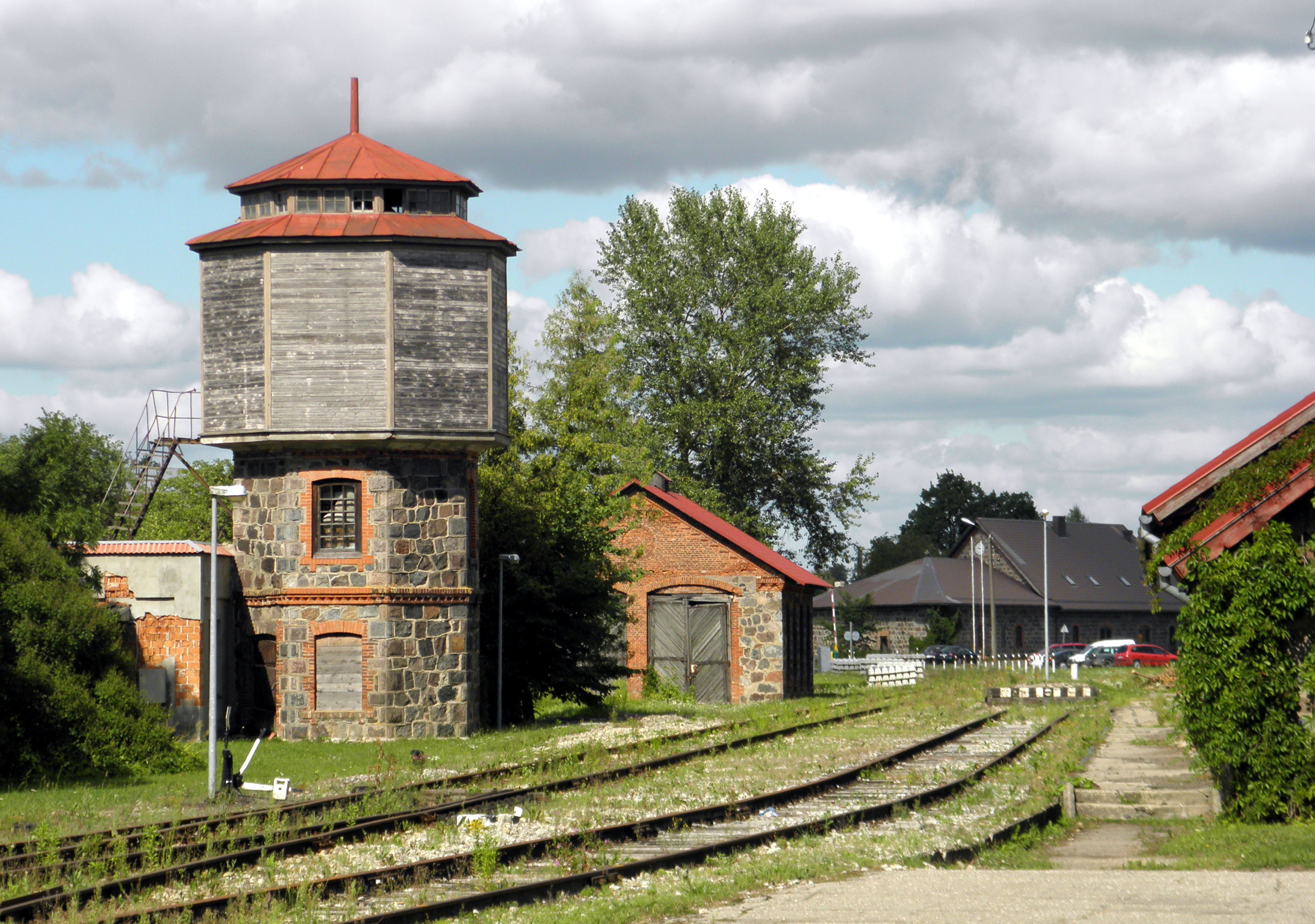 Railway water tower at the Viljandi railway station, Estonia